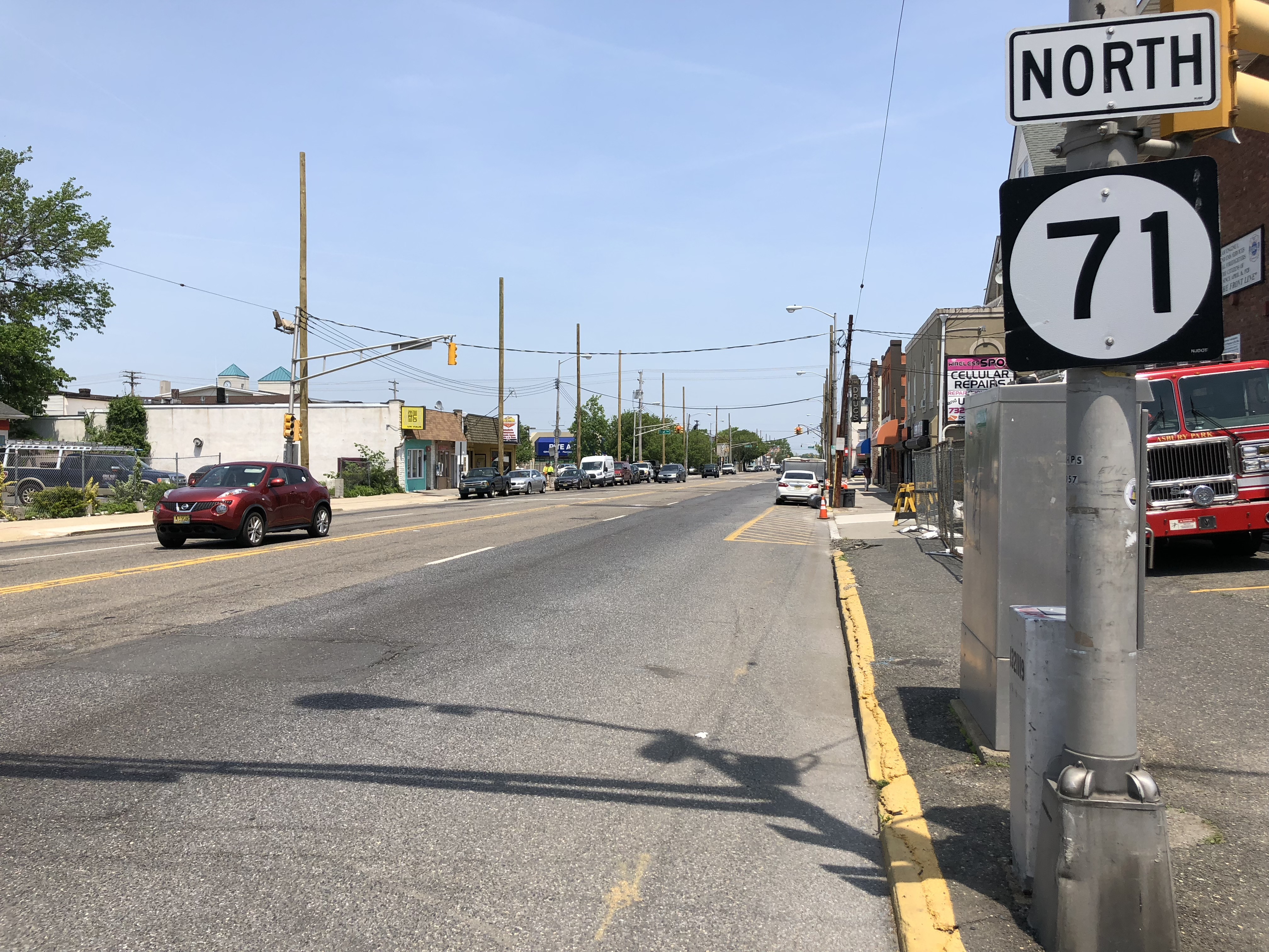 View north along New Jersey State Route 71 (Main Street) at Monmouth County Route 16 (Asbury Avenue) in Asbury Park, Monmouth County, New Jersey